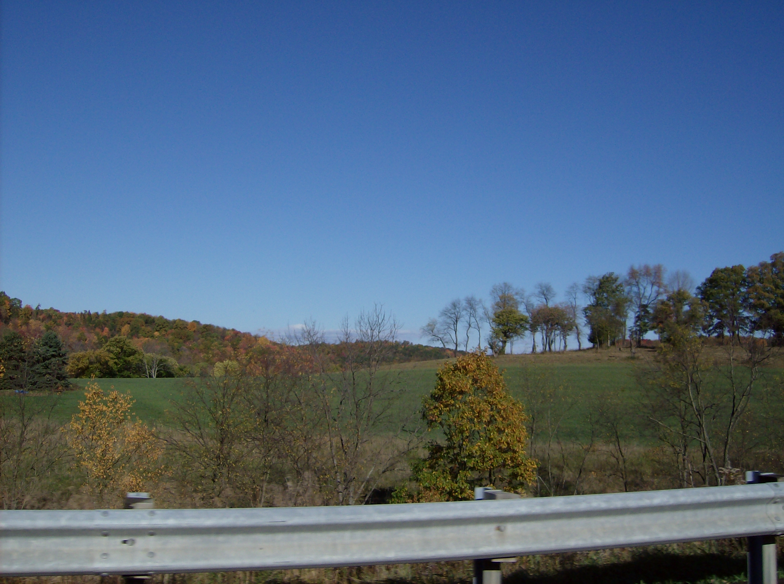 Countryside in southern North Buffalo Township, Armstrong County, Pennsylvania, United States. Picture taken northwest from Pennsylvania Route 28.